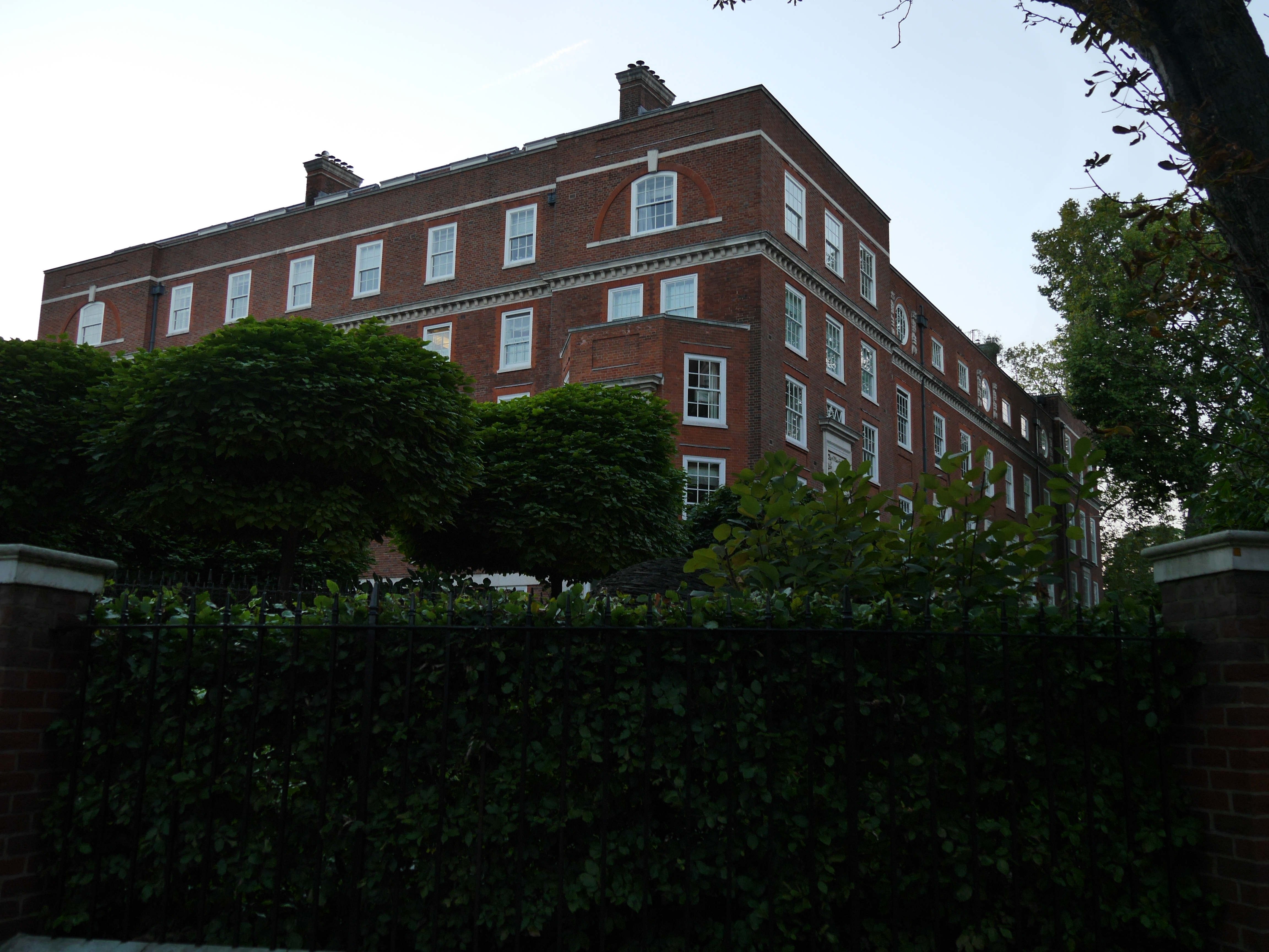 Academy Gardens, London, September 2016